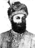 The 4th ruler of the Durrani Empire (Afghan Empire)